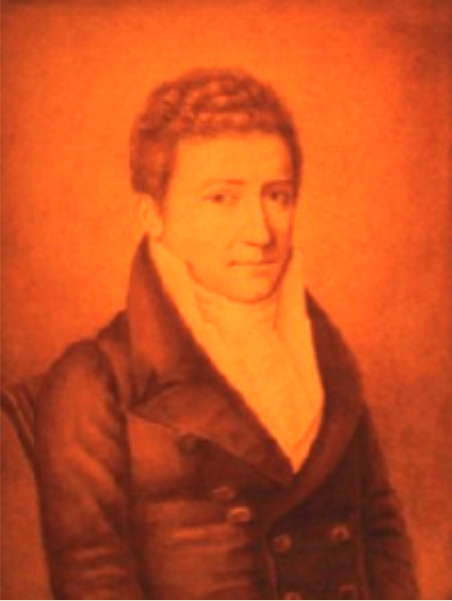 Jean Bérenger, Comte d'empire (1767-1850)